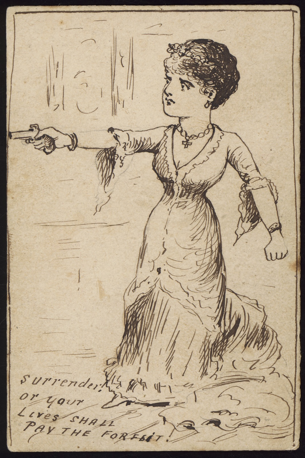 Mary Fanny Cathcart (1833-1880), later Mrs Robert Heir, then Mrs. George Darrell, was an English-born Australian actress, whose forte was comedy and Shakespearean roles.